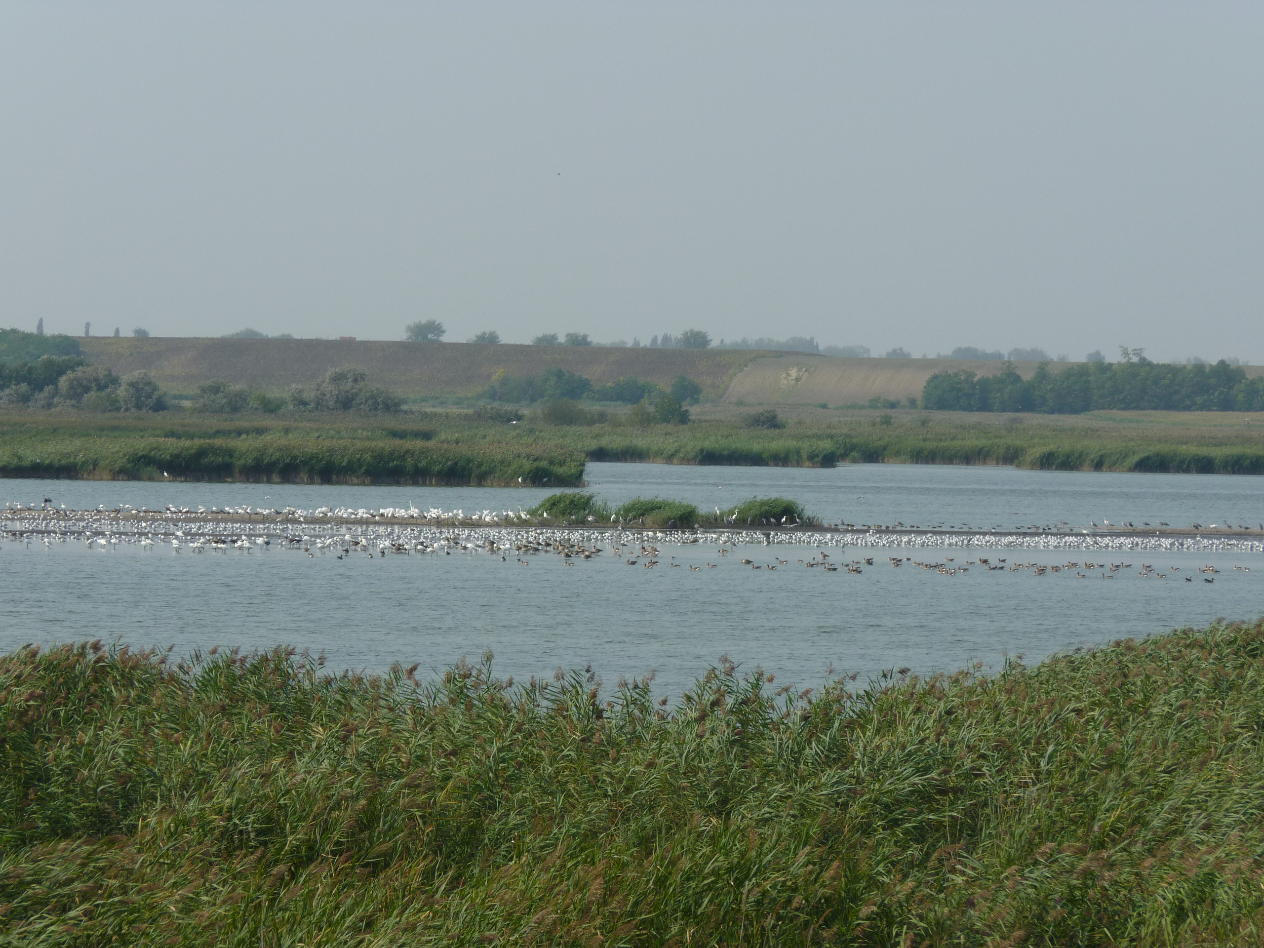 Dinnyési Fertő protected wetland